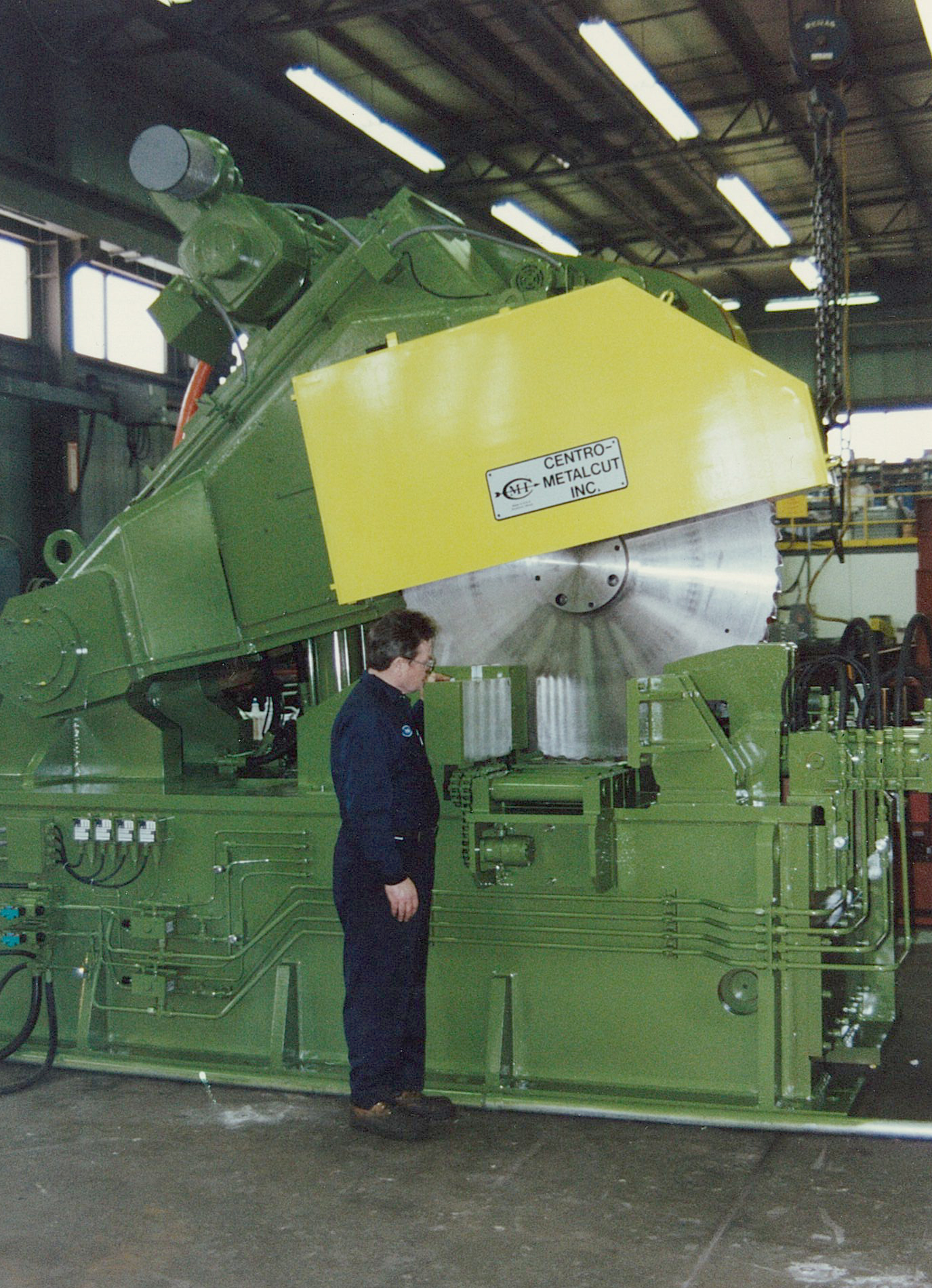 Carbide Saw